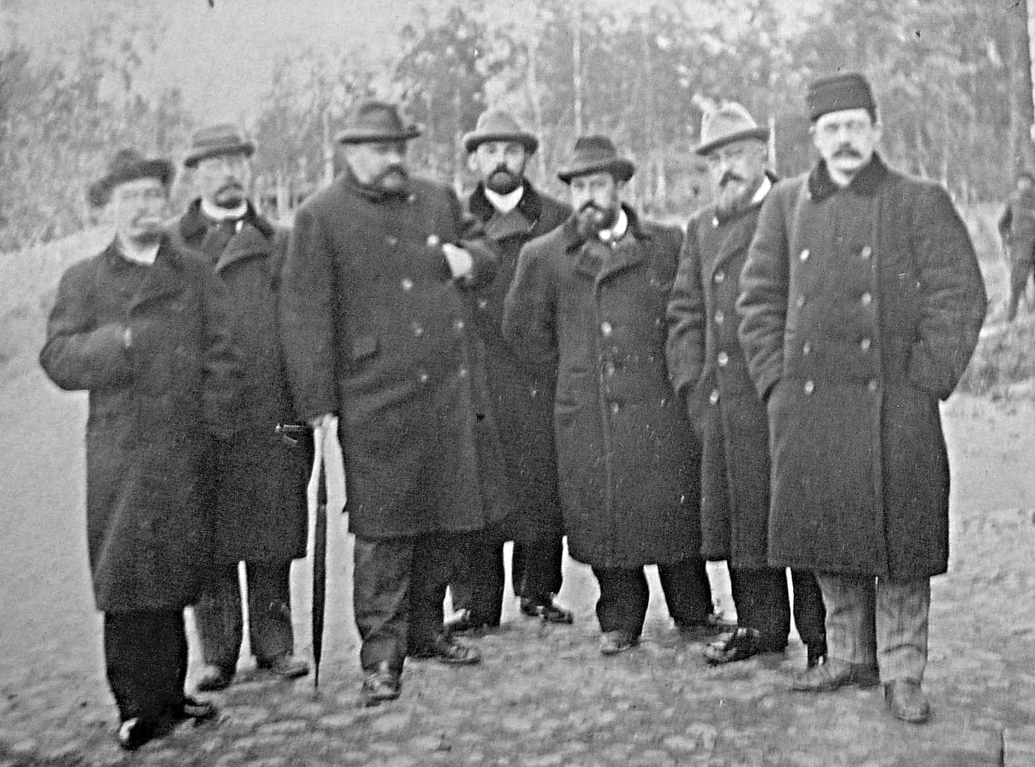 Group of psychiatrists. 1 - unknown, 2 - unknown, 3 - Reformatskiy, 4 - Vasil'kevich, 5 - Stein, 6 - Reimers, 7 - Kolotinskiy